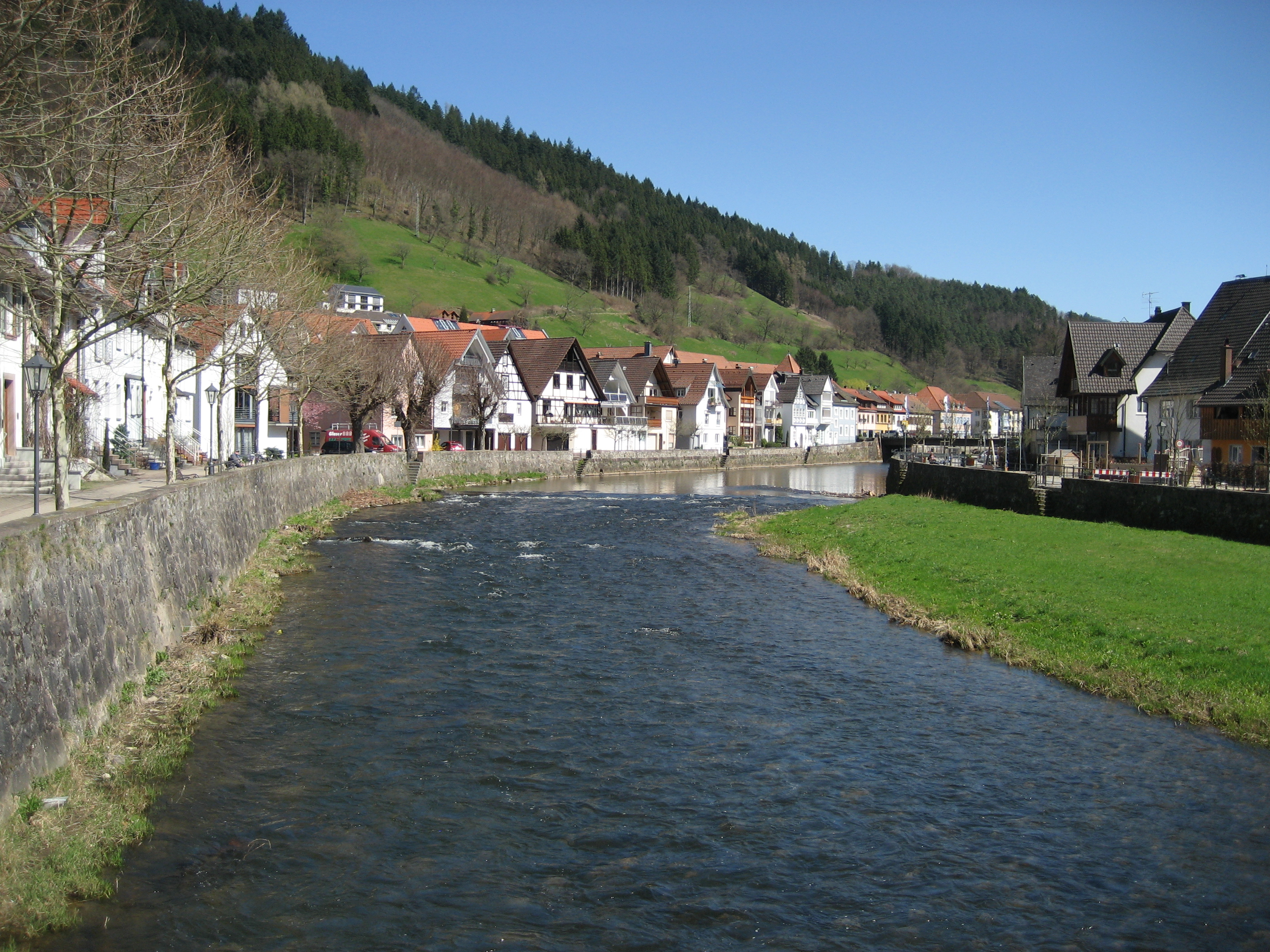 Kinzig river in Wolfach, Schwarzwald region, Germany, Europe